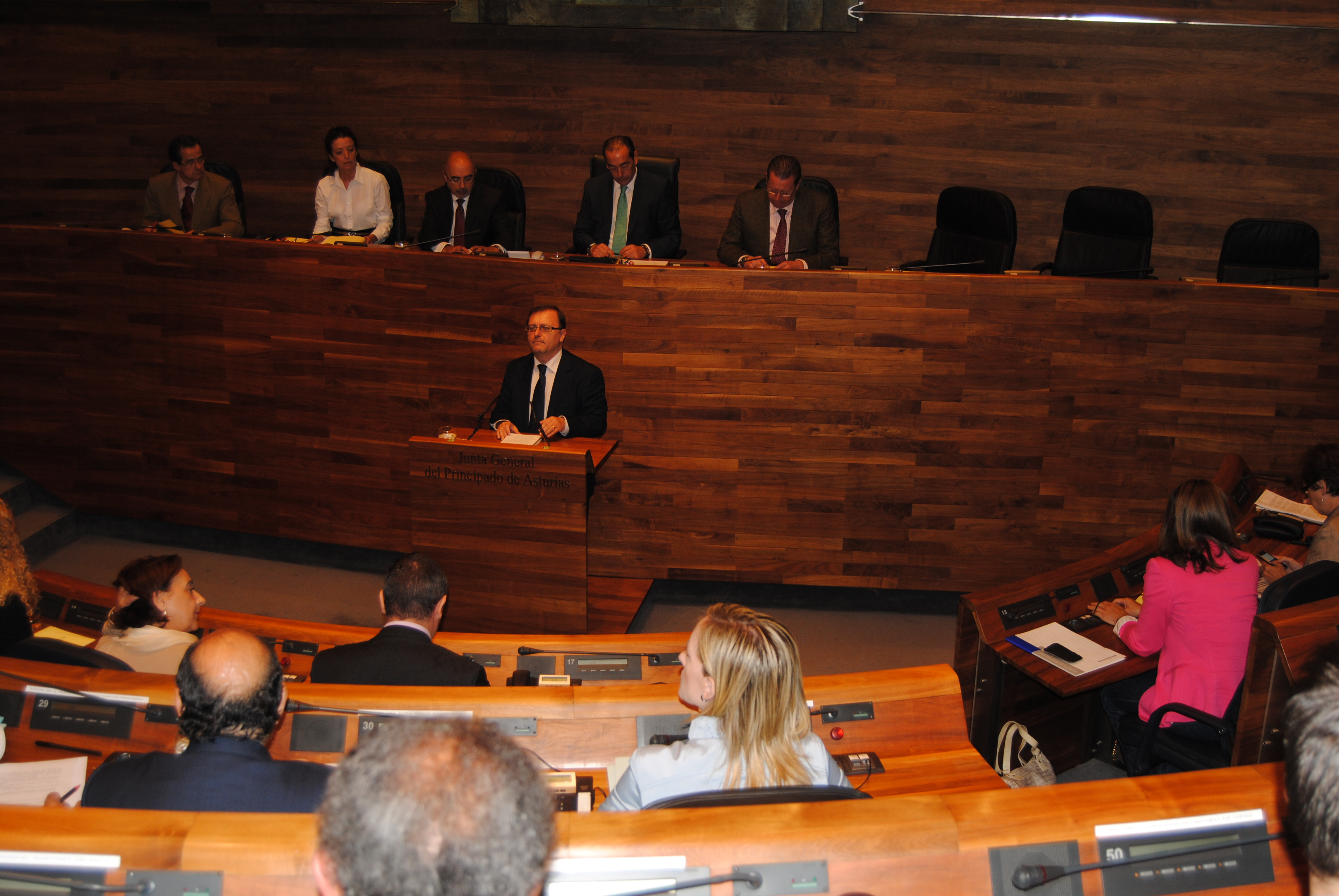 Jesús Iglesias, portavoz parlamentario de IU-Verdes